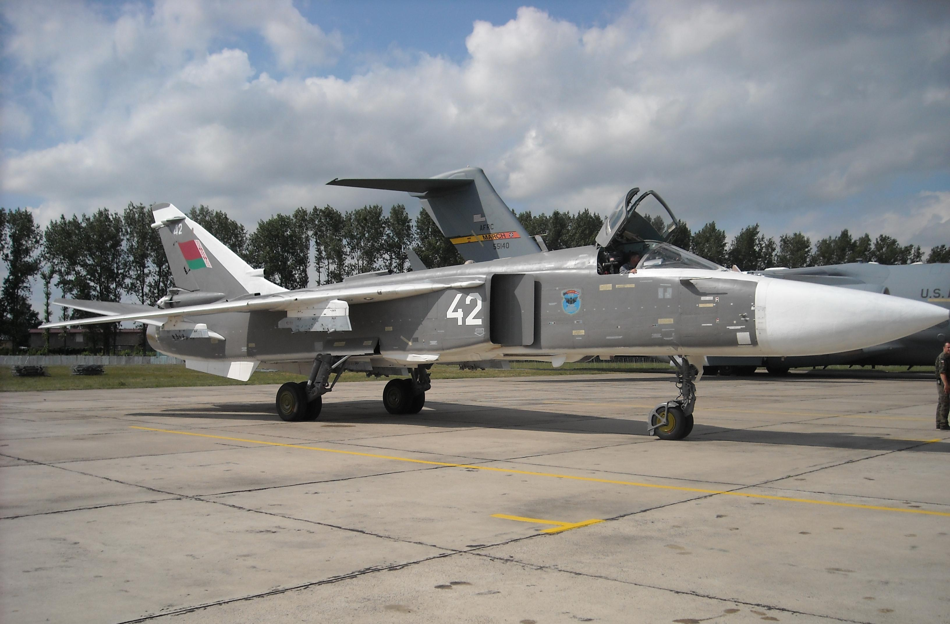 Sukhoi Su-24M Fencer-D of the Belarusian Air Force (Ross AFB) at Radom-Sadków airfield, Air Show 2009.